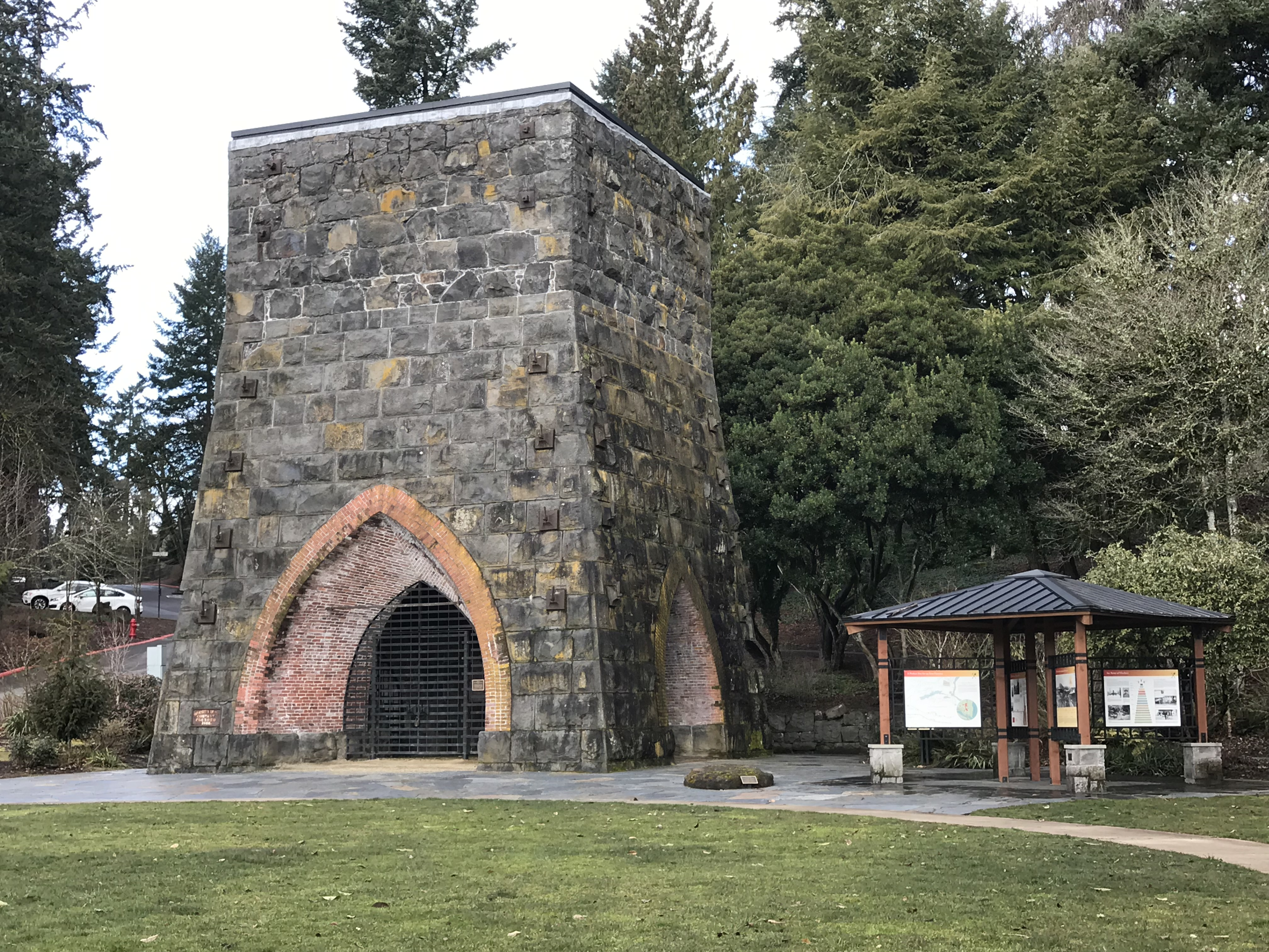 Iron Furnace circa 2019